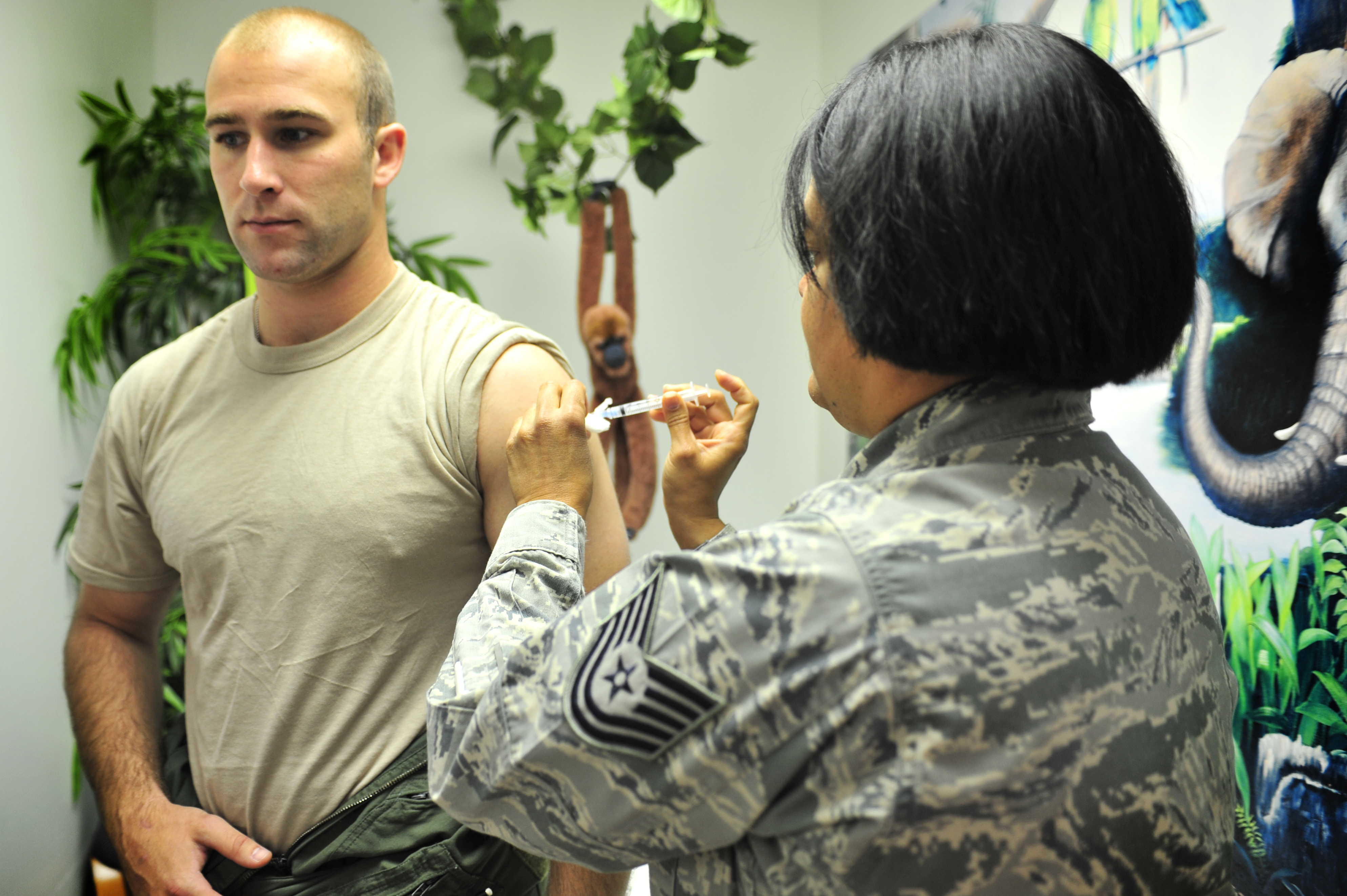 U.S. Air Force Tech. Sgt. Mildred Rosado Canales, 27th Special Operations Support Squadron independent duty medical technician, injects Capt. Buckley Kozlowski, 20th Special Operations Squadron pilot, with a vaccination for Typhoid in the clinic at Cannon Air Force Base, N.M., May 29, 2012. The Typhoid vaccine protects against a type of fever transmitted by ingestion of contaminated food or water.